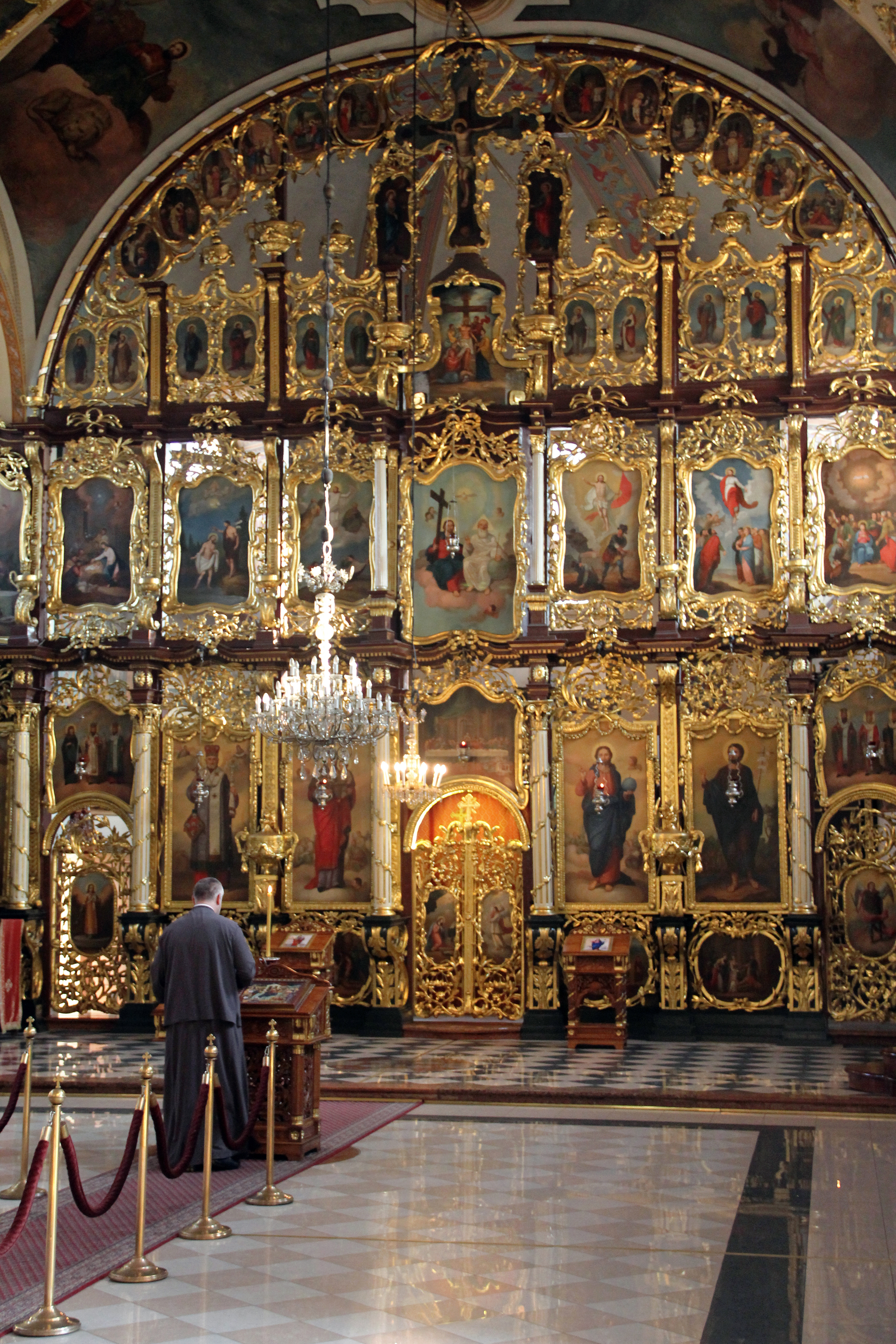 In the west part of the old downtown Zemun, developed since the beginning of the eighteenth century, the foundation stone for its Orthodox church was laid in 1777. The building of the church was financed by the Serbian and Greek Orthodox citizens of Zemun. The church was sanctified in 1783. It is a single-nave building with a semi-circle apse, choir niche and a three-sectional nave. A copper dome is above the nave. The church was originally without a belfry in line with the traditional Serbian-Byzantine elements, similar to other old Orthodox churches in Vojvodina, but gained its present day form in a later reconstruction. A big belfry on the west side was built at the turn of the eighteenth century and the church was fundamentally reconstructed in 1880. Under the belfry there is a depository of rarities for the bones, according to the rules still observed in Greek orthodox churches, particularly at Mount Athos. The Church of Virgin Mary is the largest church in old downtown Zemun, a single-nave building with shallow choir niches and graceful slender two-storey belfry springing from the west facade. The church has a richly carved baroque iconostasis carved by Aksentije, the carver, from a renowned artisan family Marković, with icons by a talented and productive icon painter and classicistic painter Arsenije Teodorović. The church was renovated in 2000-2001, its fresco paintings were repaired, it got a new floor and floor heating. The church and the neighbouring Centre of the Serbian Orthodox community share one plot and make one entity.